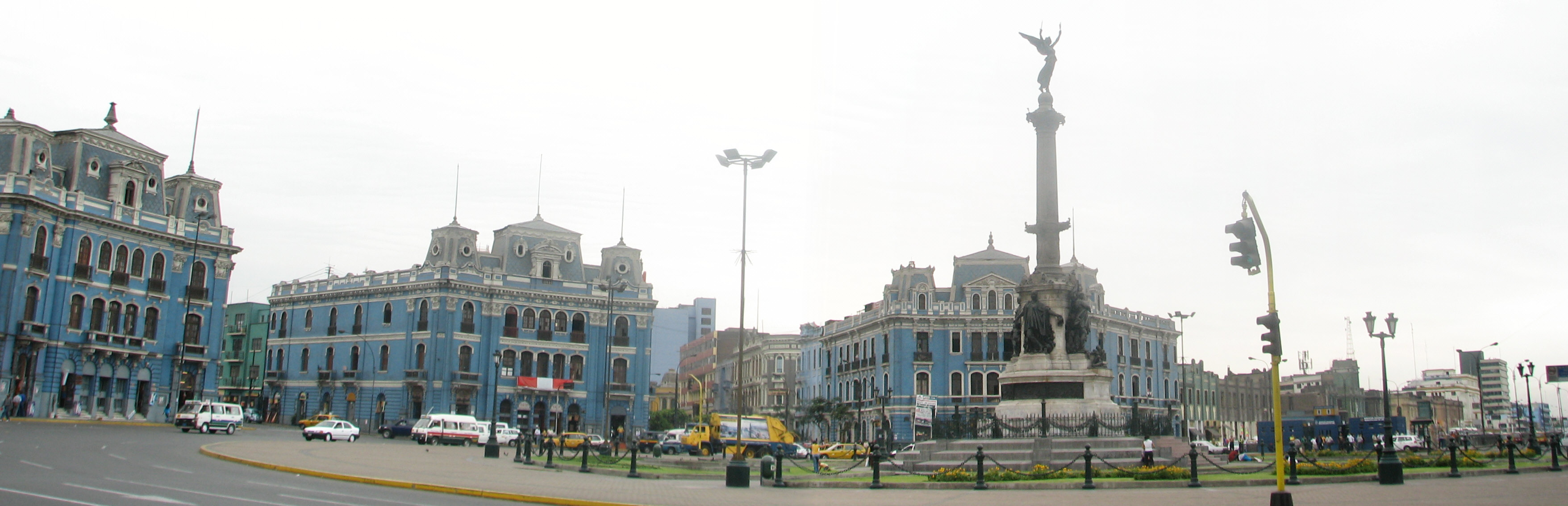 Plaza dos de mayo (may 2nd square) in Lima, Peru.